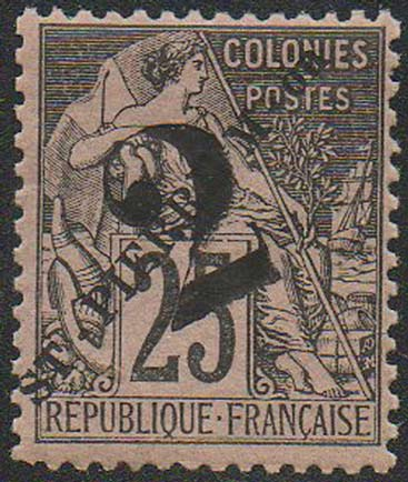 1891 issued 25Fr postage stamp of France overprinted "ST PIERRE M-on" for use in St Pierre et Miquelon